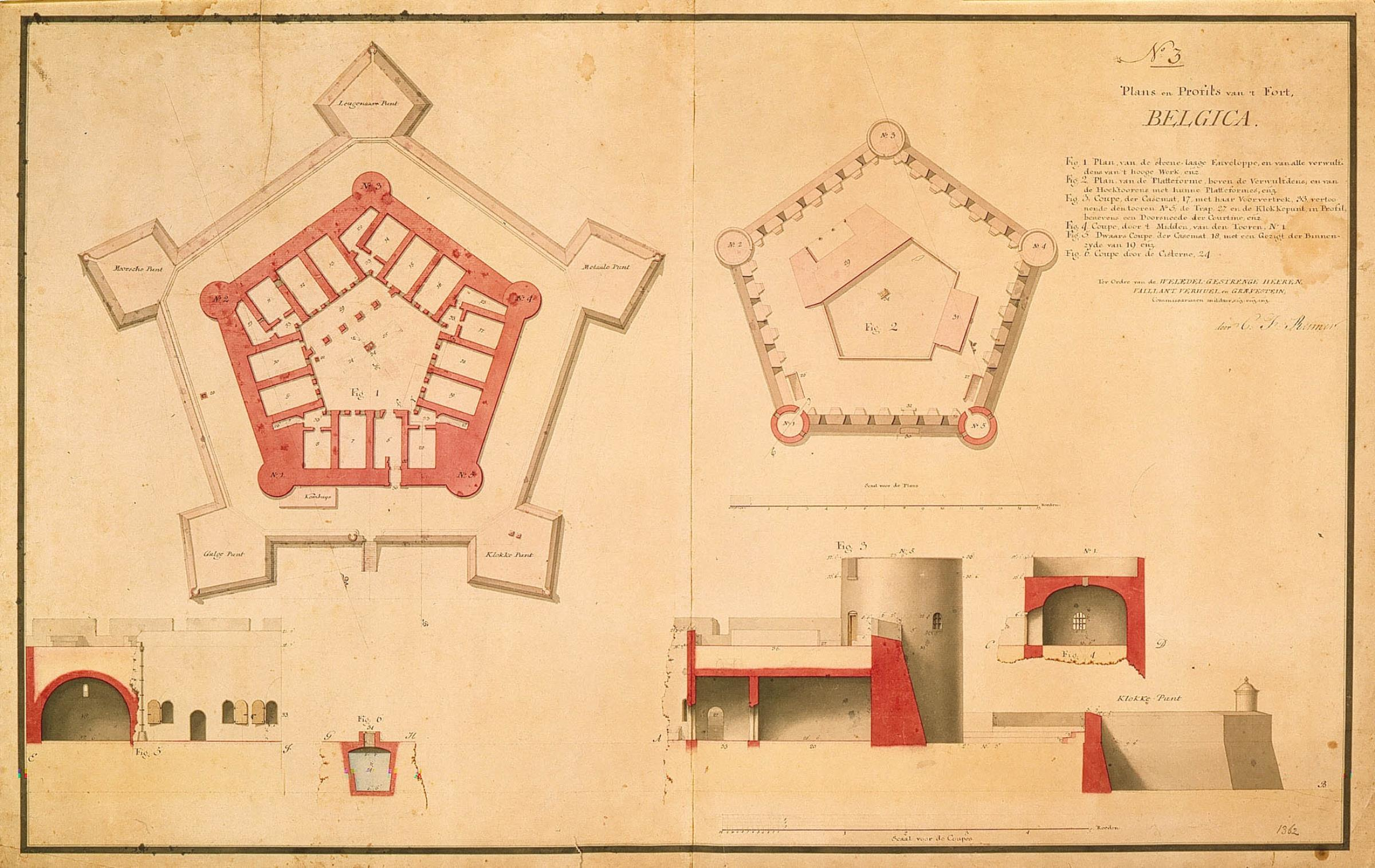 According to the Leupe catalogue (NA), the original title reads: Plans en profils van 't fort Belgica. Key: 1-6 Numbered: No.3. Notes on reverse: 664 [stamped in bold on a small label]. 15 [Rhenish] rods = 205 stripes; converted scale [1 : 275] [Plans] / 5 [Rhenish] rods = 217 stripes; converted scale [1 : 86] [Coupes].